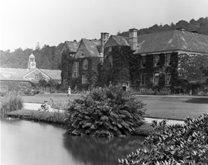 Sydenham House in the parish of Marystow in Devon, photographed in 1899